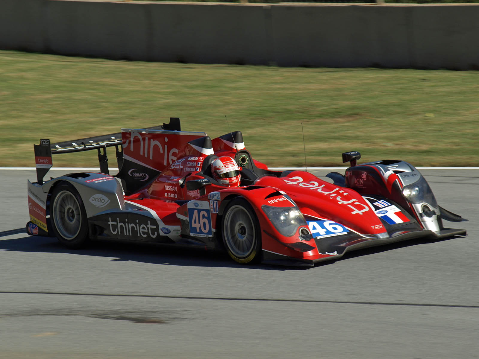 Mathias Beche in the Thiriet by TDS Racing Oreca 03-Nissan during qualifying for the 2012 Petit Le Mans